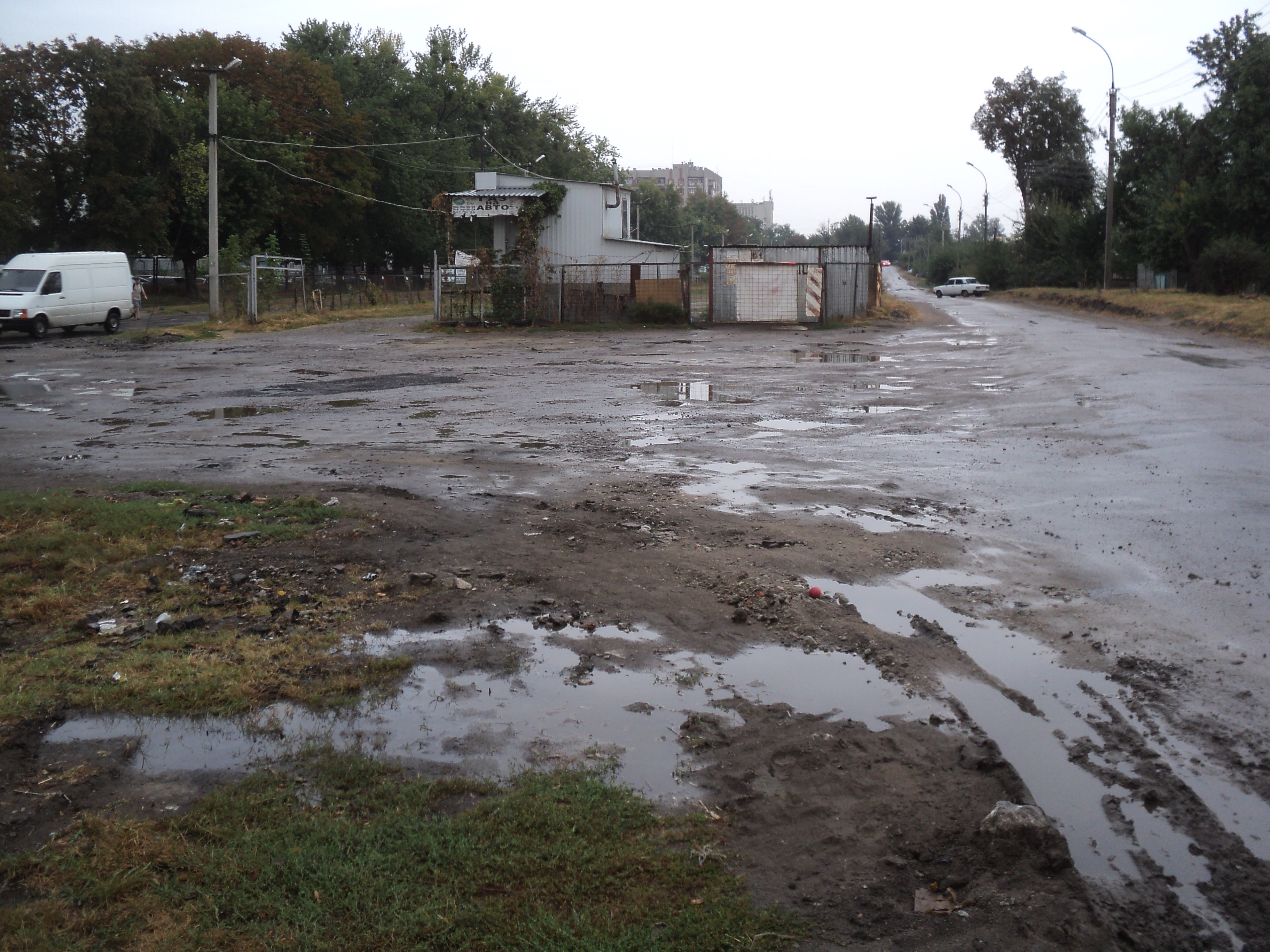 Cherkasy, Ukraine. Pasterivska street crossing Nevs'koho street. September, 2018